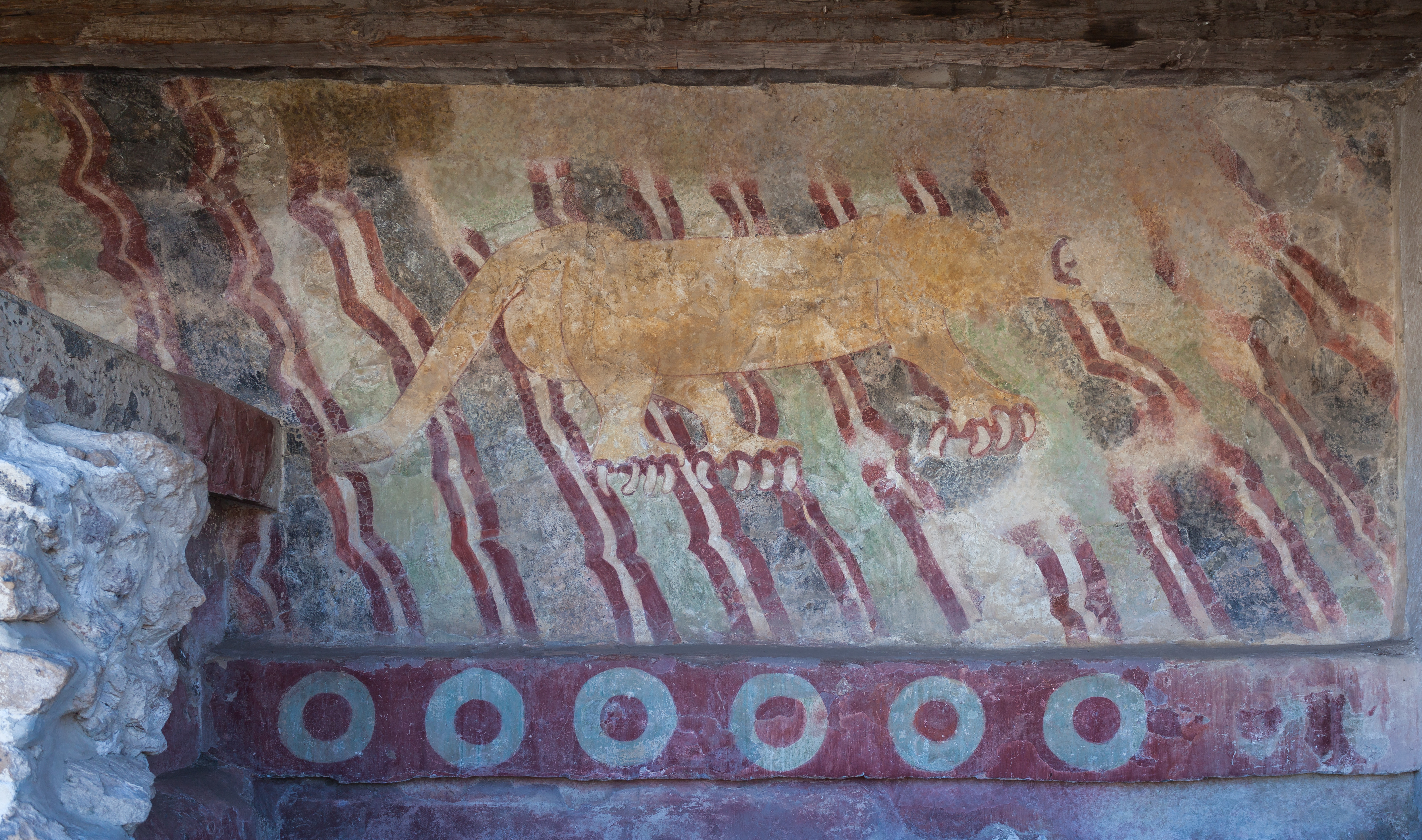 Avenue of the Dead, Teotihuacán, Mexico